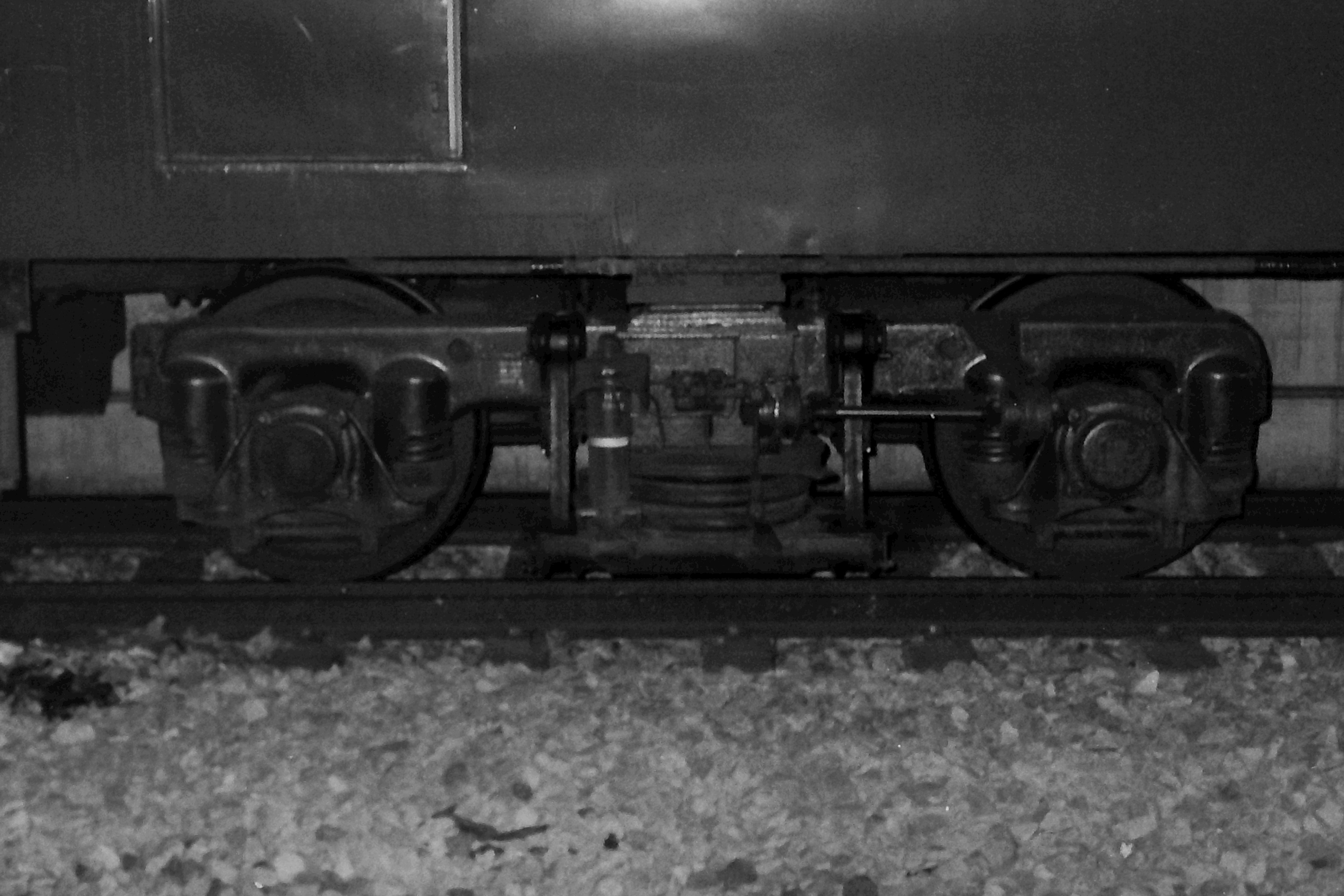 TR59 bogie truch on Saro 110